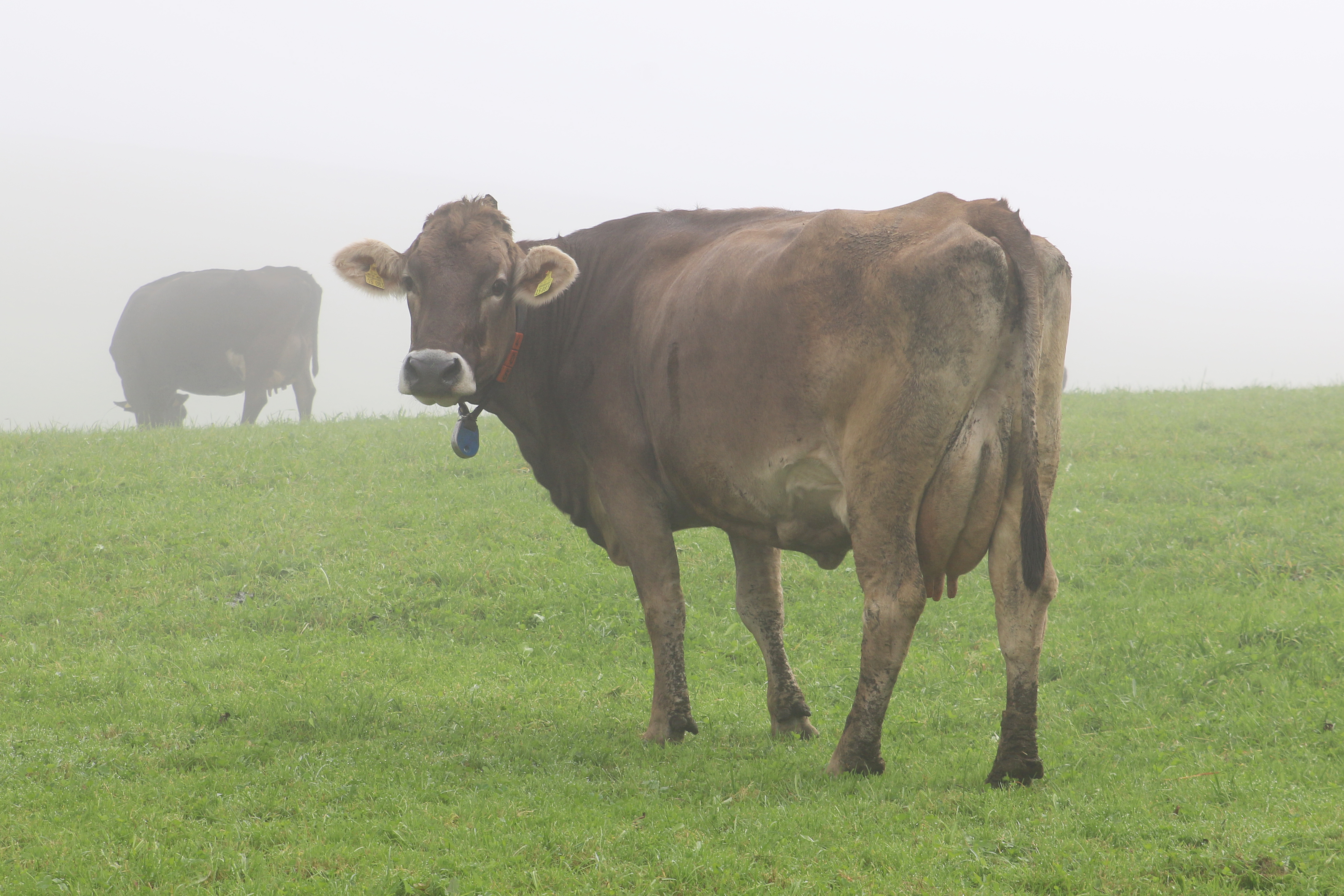 Milk cow (Braunvieh) on a meadow in the Allgäu region in morning mist